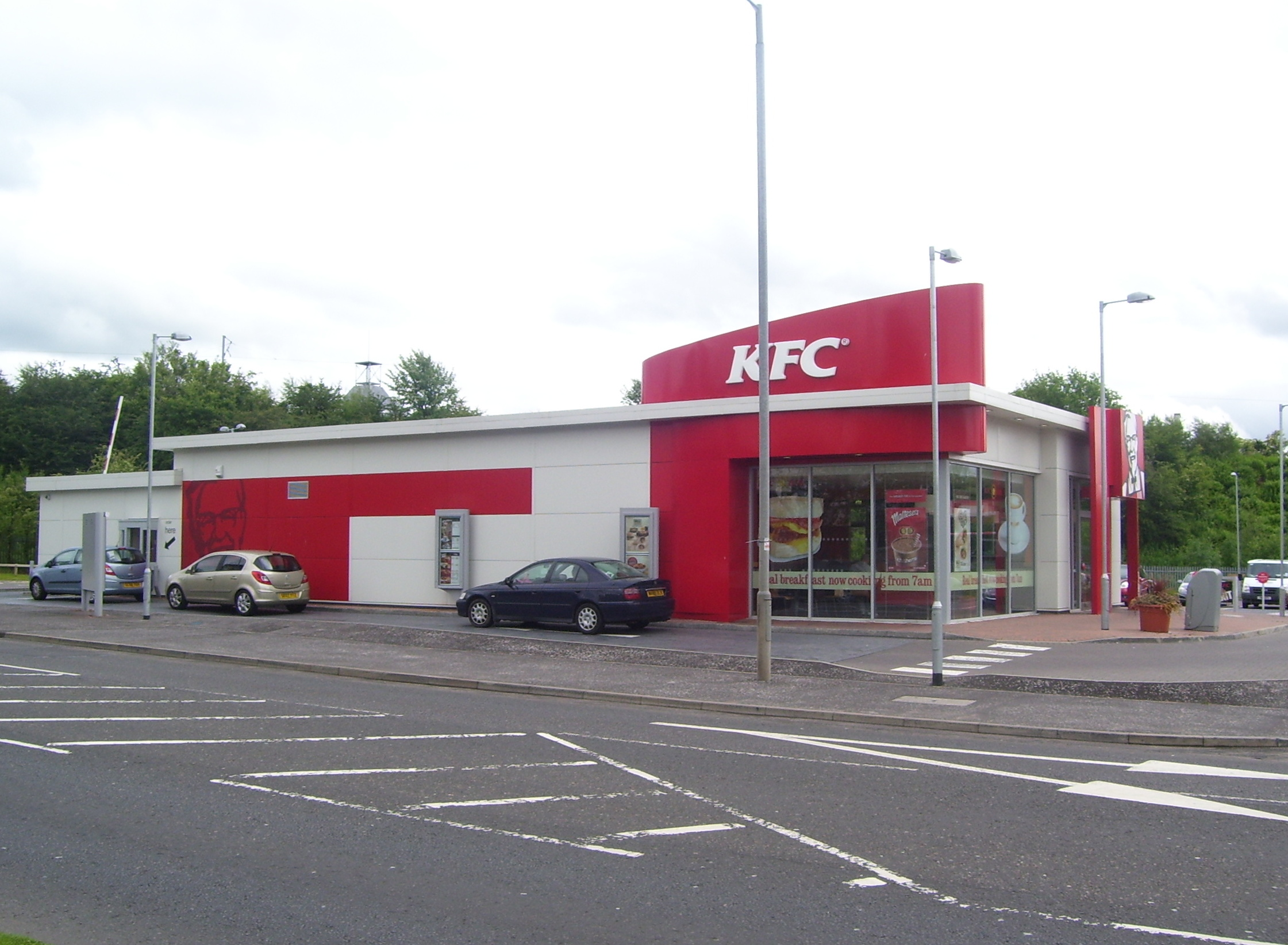 KFC Wishaw